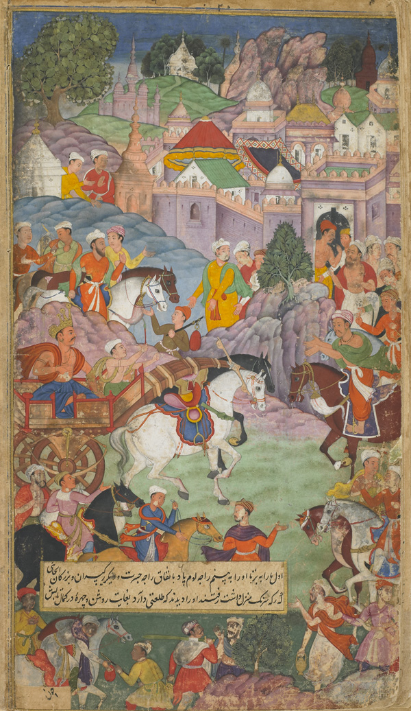 Folio from the Ramayana of Valmiki (The Freer Ramayana), Vol. 1, folio 20; recto: text; verso: Dasaratha sets out toward Angada to invite Rsyasrnga to his abode 1597-1605